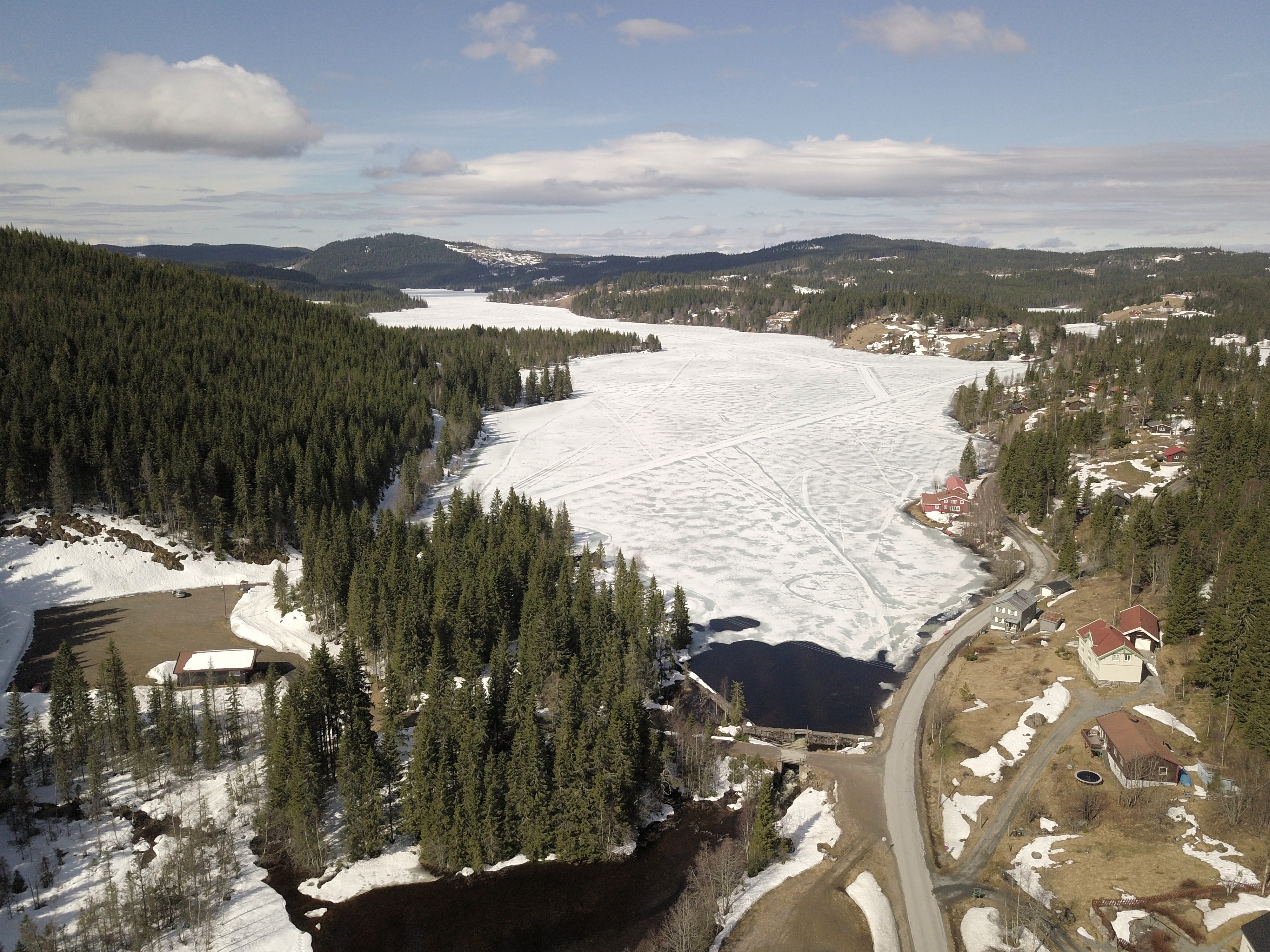 Depicted place: Mylla